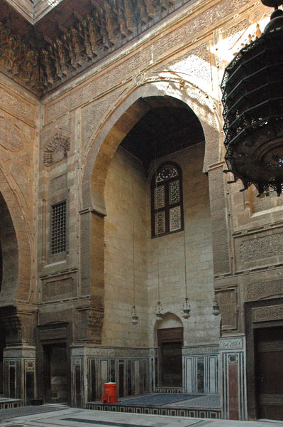 Madrasa of al-Ghuri. Cairo. Egypt